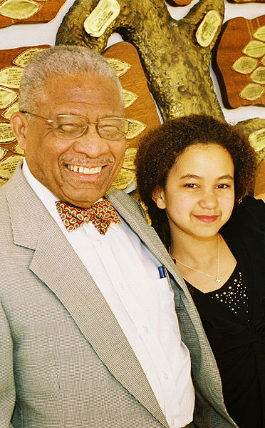 Ambassador Horace Dawson (left) with his granddaughter (right).